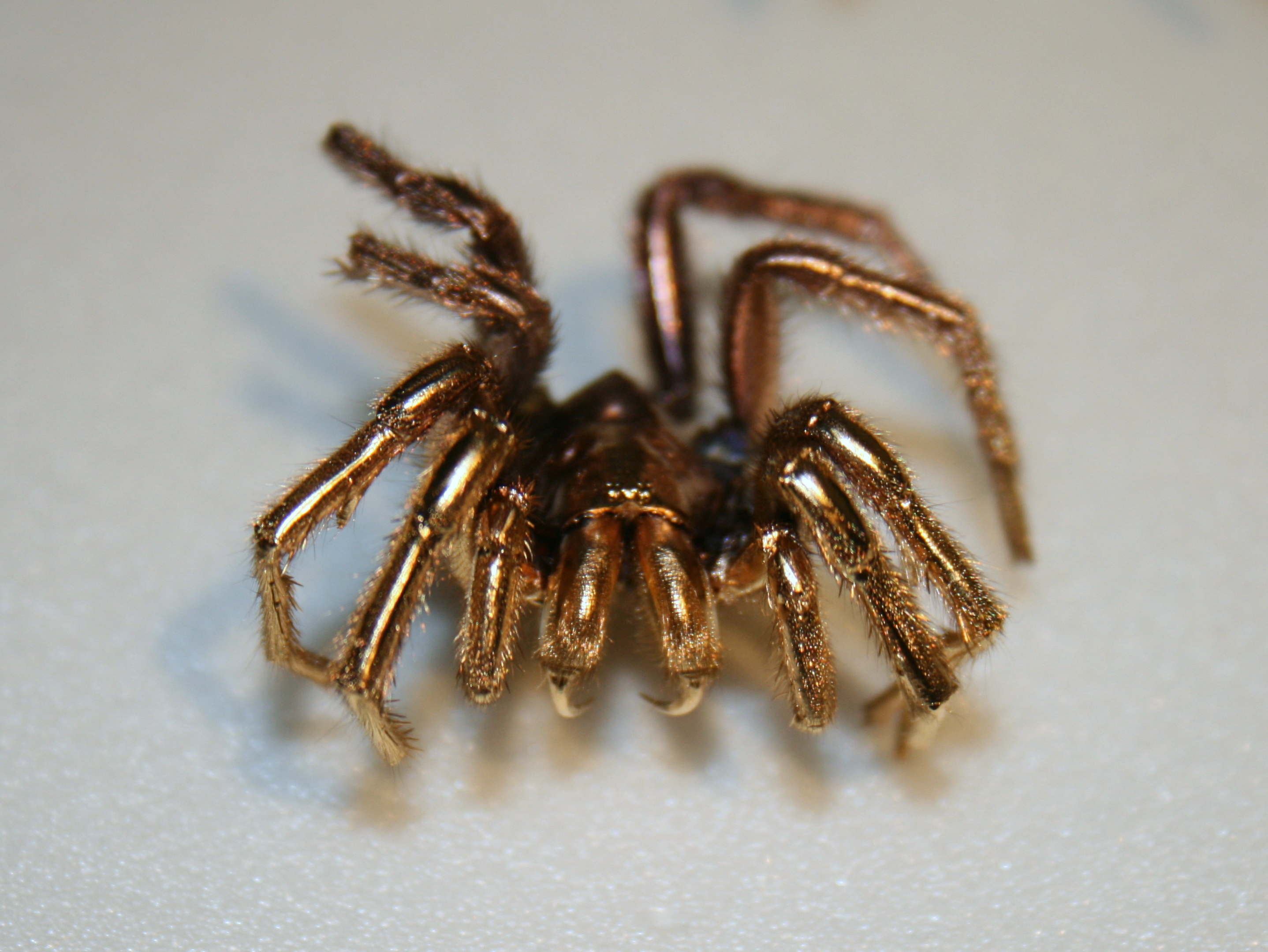 A spider coated in gold to prepare it as a specimen for Scanning electron microscopy. This item was on display at the Australian Museum in Sydney, New South Wales, Australia.